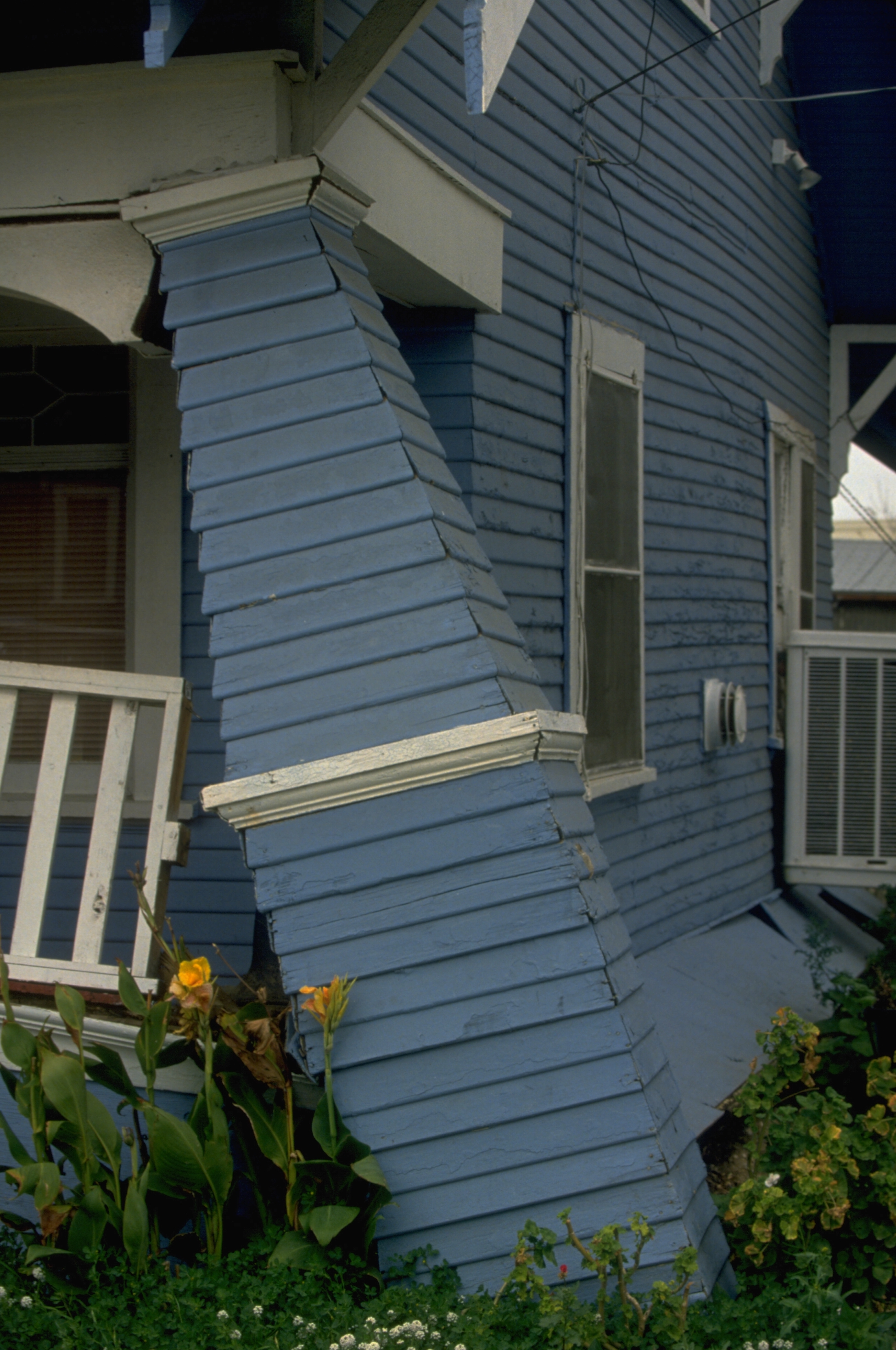 Northridge Earthquake, CA, January 17, 1994 -- Buildings, cars and personal property were all destroyed when the earthquake struck. Approximately 114,000 residential and commercial structures were damaged and 72 deaths were attributed to the earthquake. Damage costs were estimated at $25 billion. FEMA News Photo